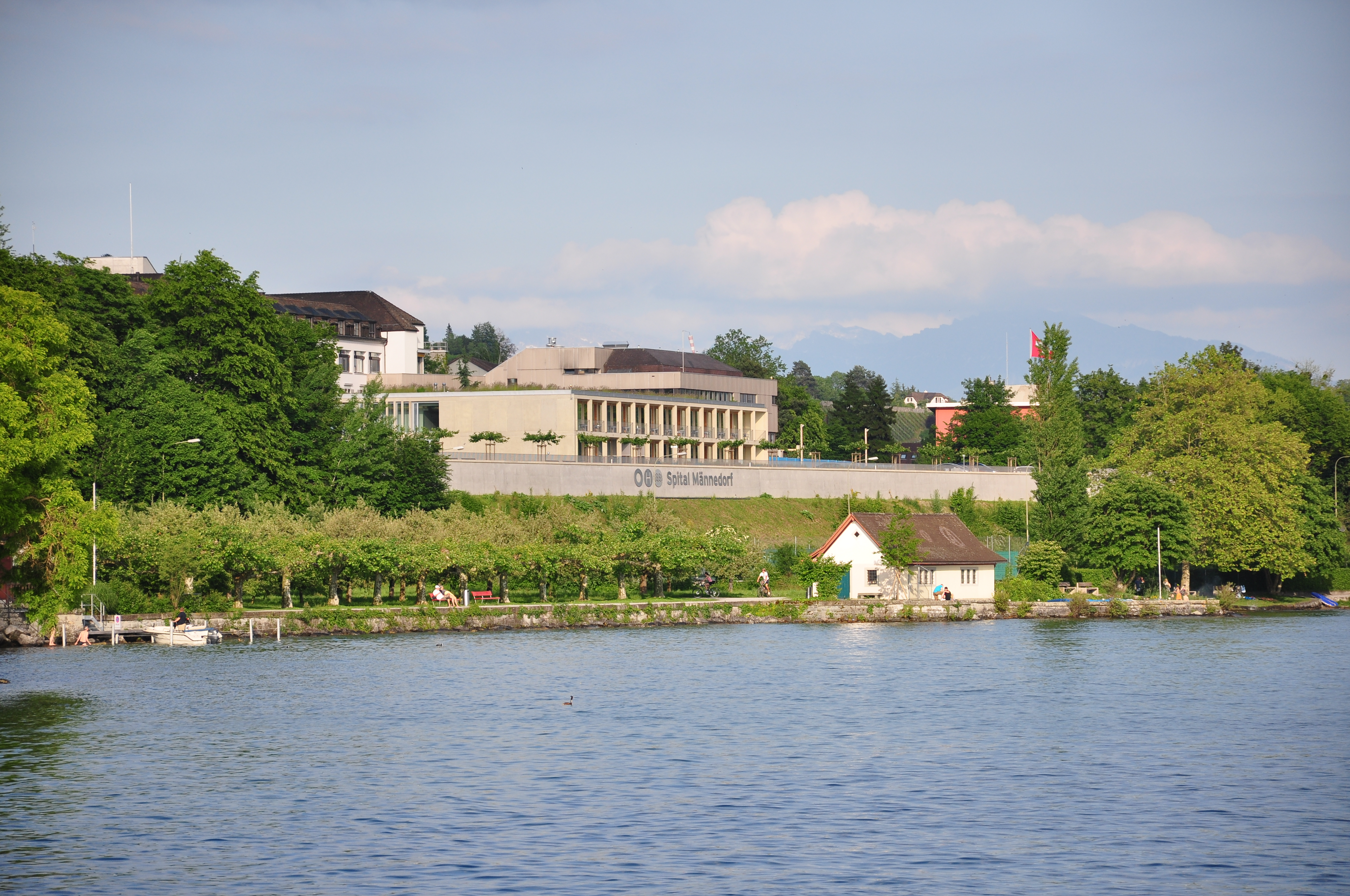 Männedorf lake side and regional hospital and north-western Pannenstiel (Switzerland) as seen from ZSG paddle steamship Stadt Zürich